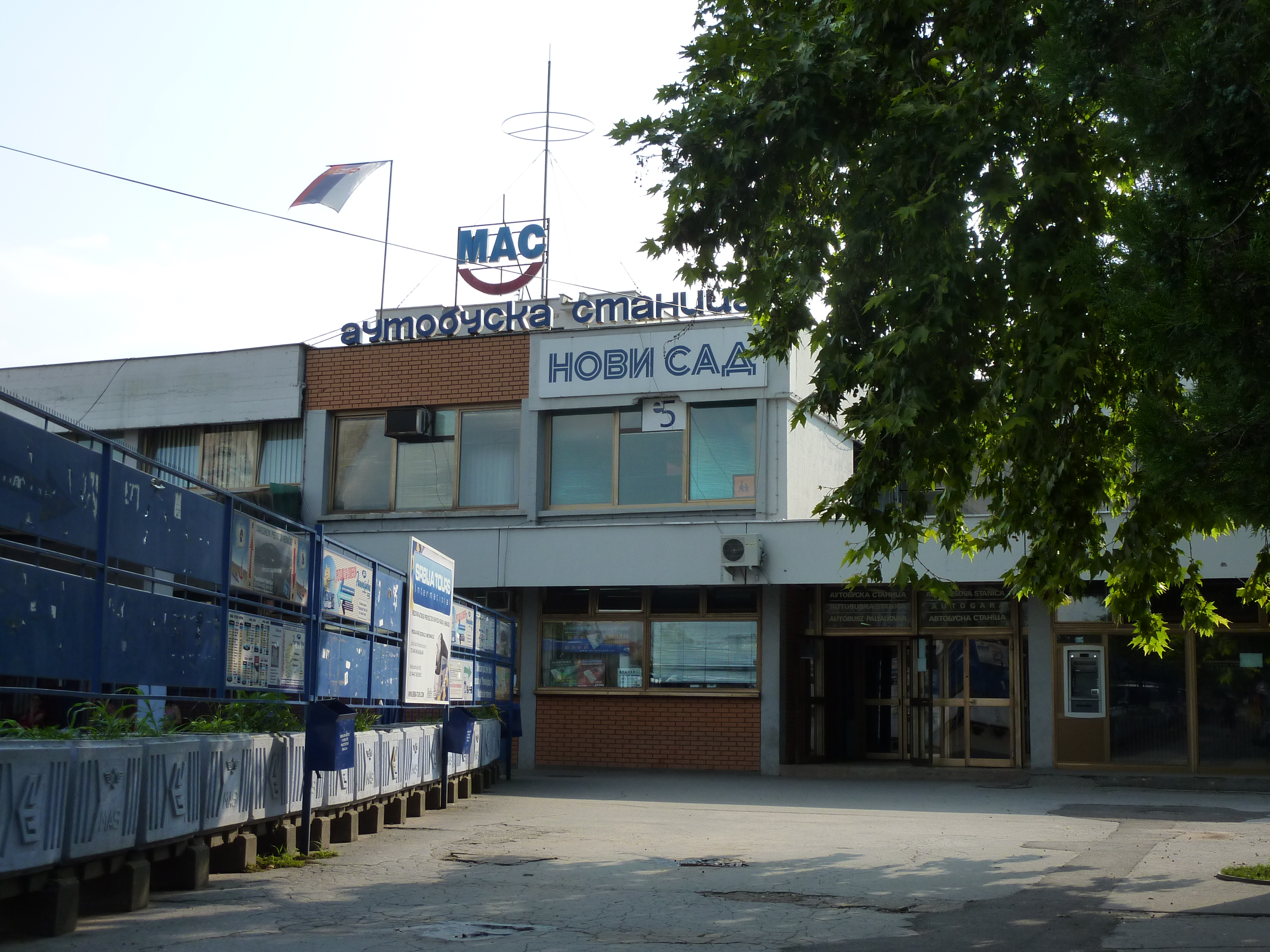 Entrance of the bus station in Novi Sad, Serbia.